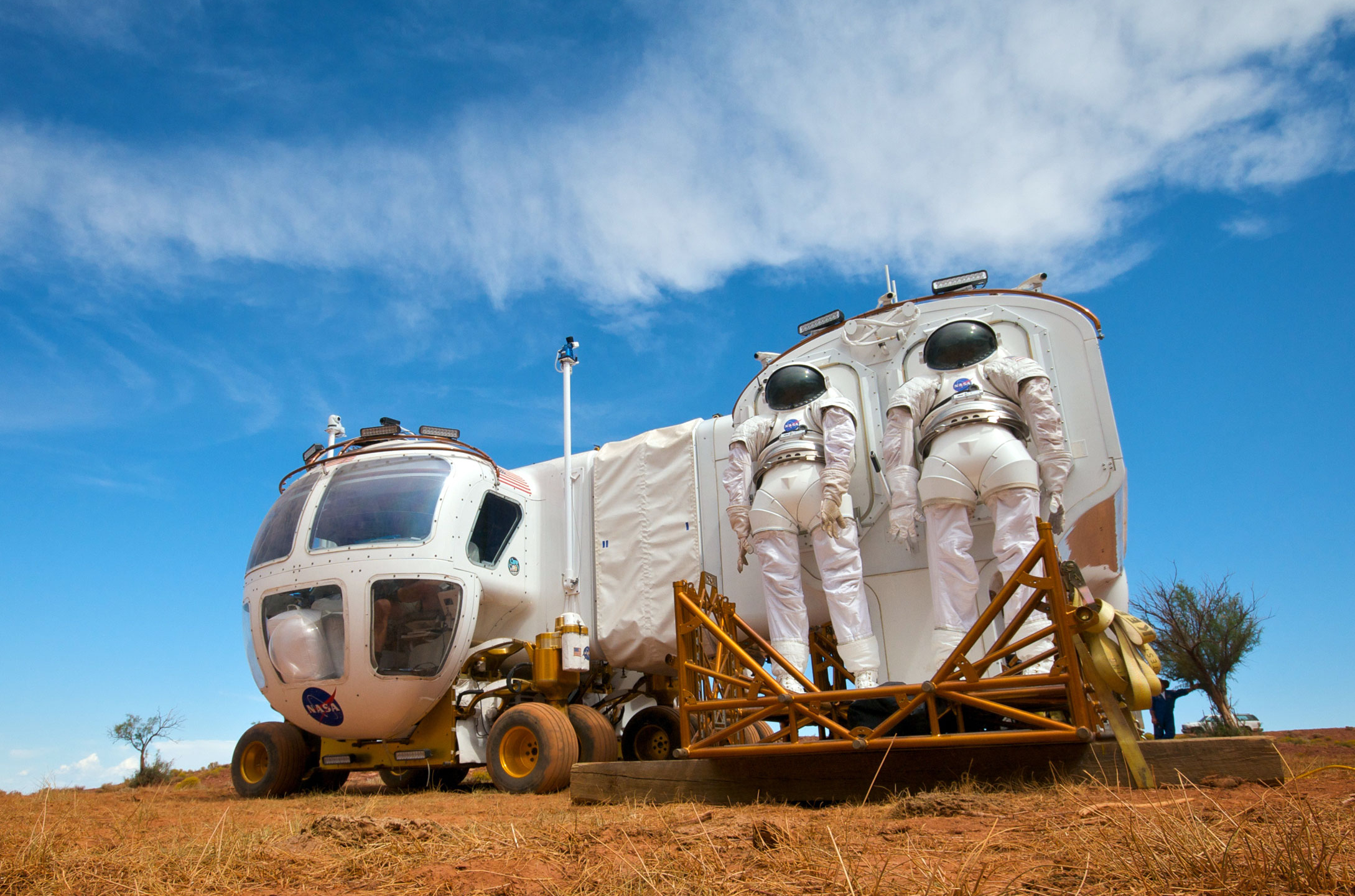 Racefab Inc. built L.E.R.